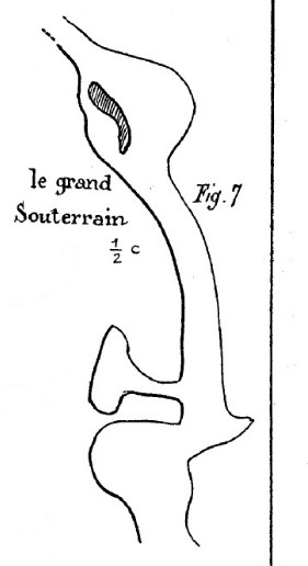 Le Grand Souterrain cave, Girolles, Yonne departement, Burgundy, France. Neolithic.